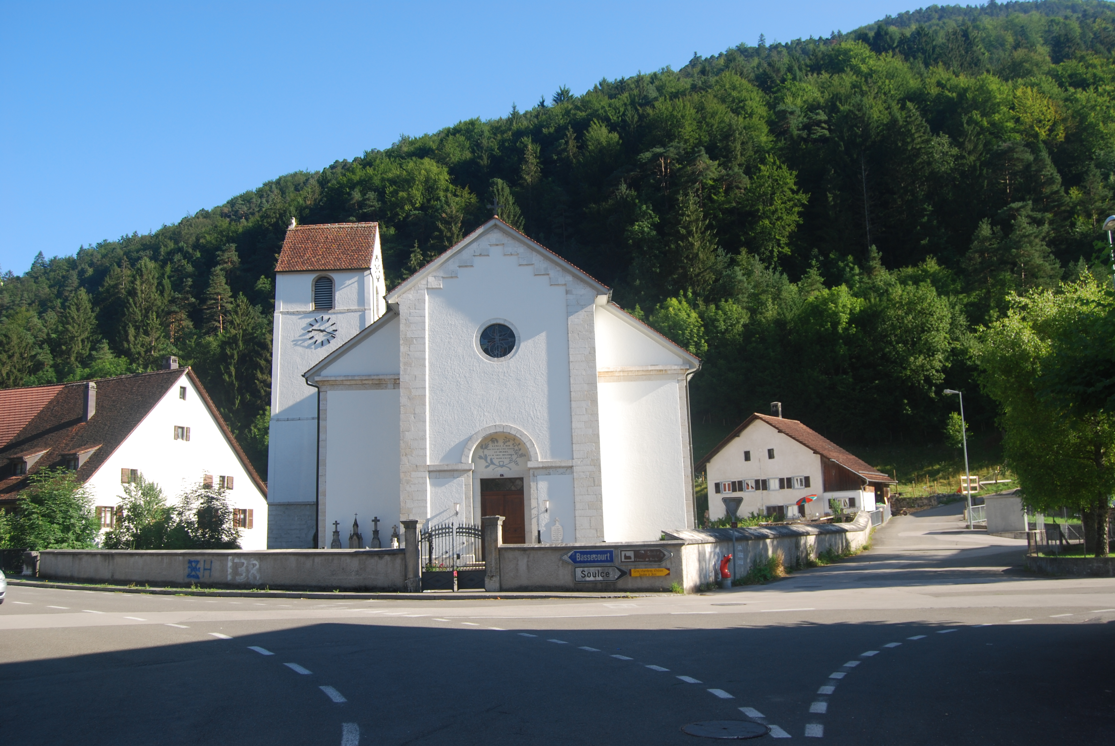 Church of Undervelier, canton of Jura, Switzerland